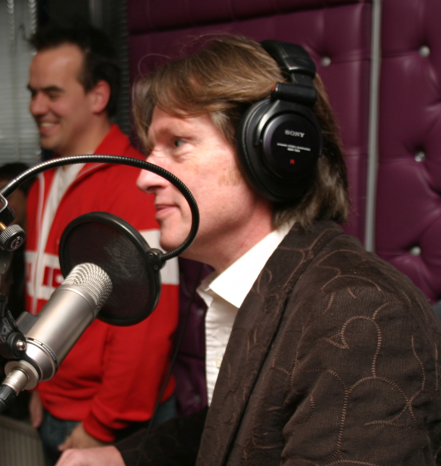 Dutch DJ Erik de Zwart. Cropped from the original Flickr photo.